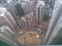 2A Seymour Rd's Construction Site, taken in 2007